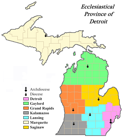 Diocesan map of the Catholic Ecclesiastical Province of Detroit.